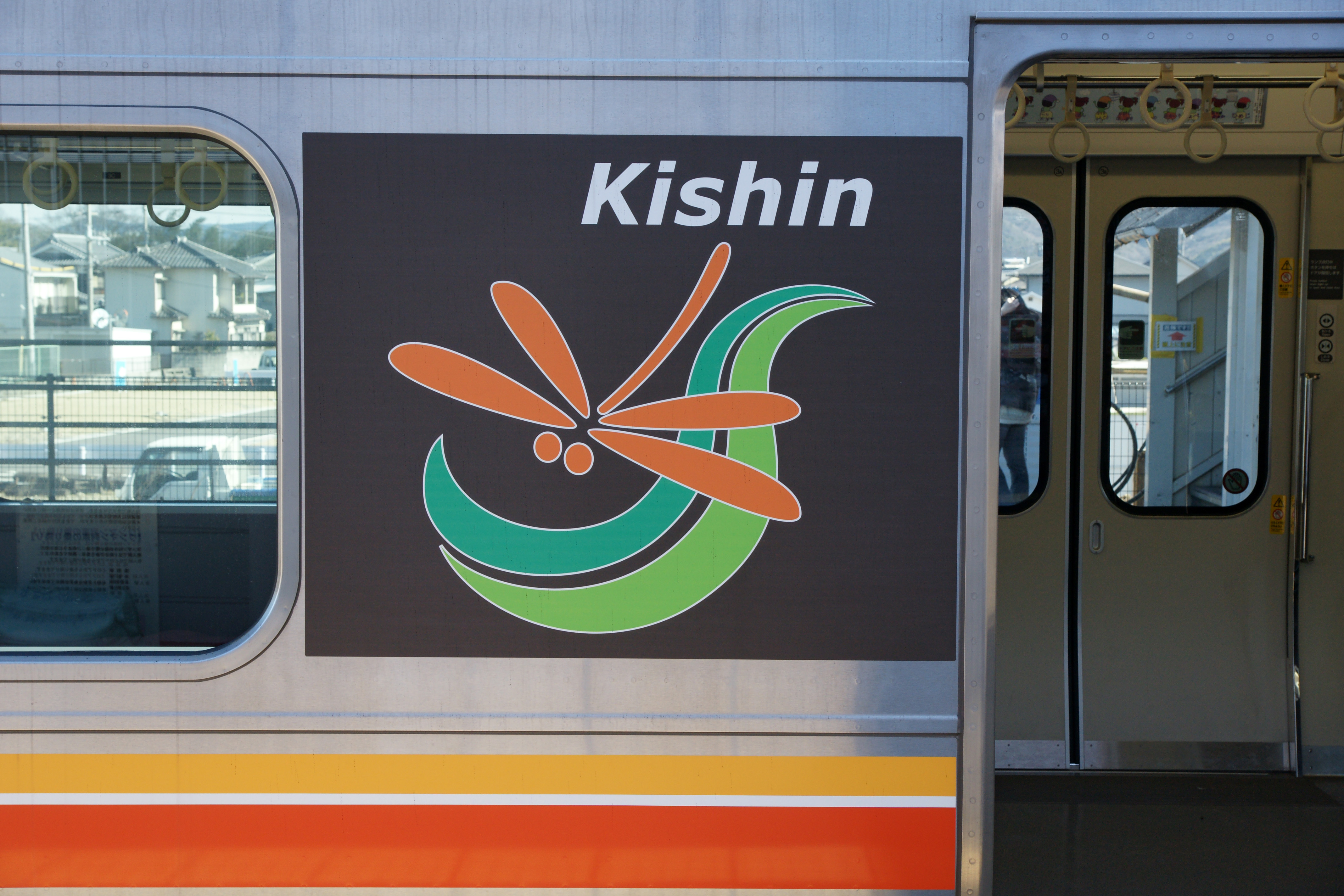 The Kishin Line logo on the side of a JR West Kiha 127 series DMU at Hontatsuno Station in Tatsuno, Hyogo prefecture, Japan